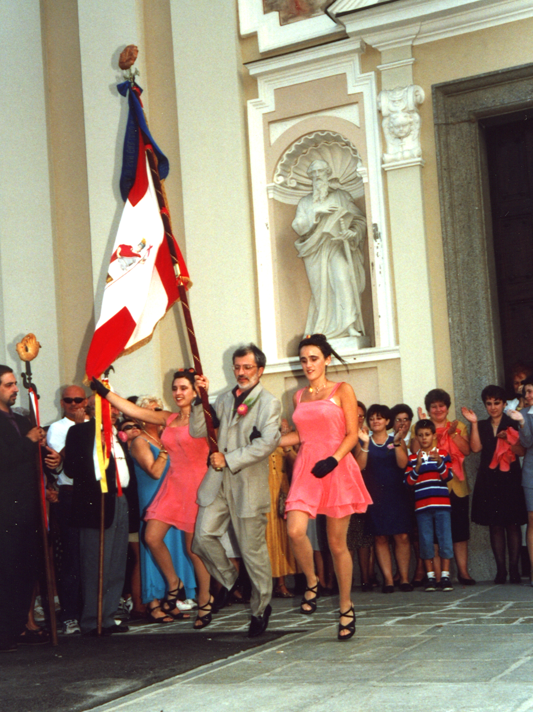 Popular festival in Italy: Armëttià dël drapò in Barbania